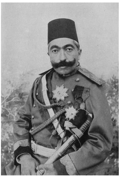 Mjdalsltnh Afshar Urmia Azerbaijan ruling in 1918